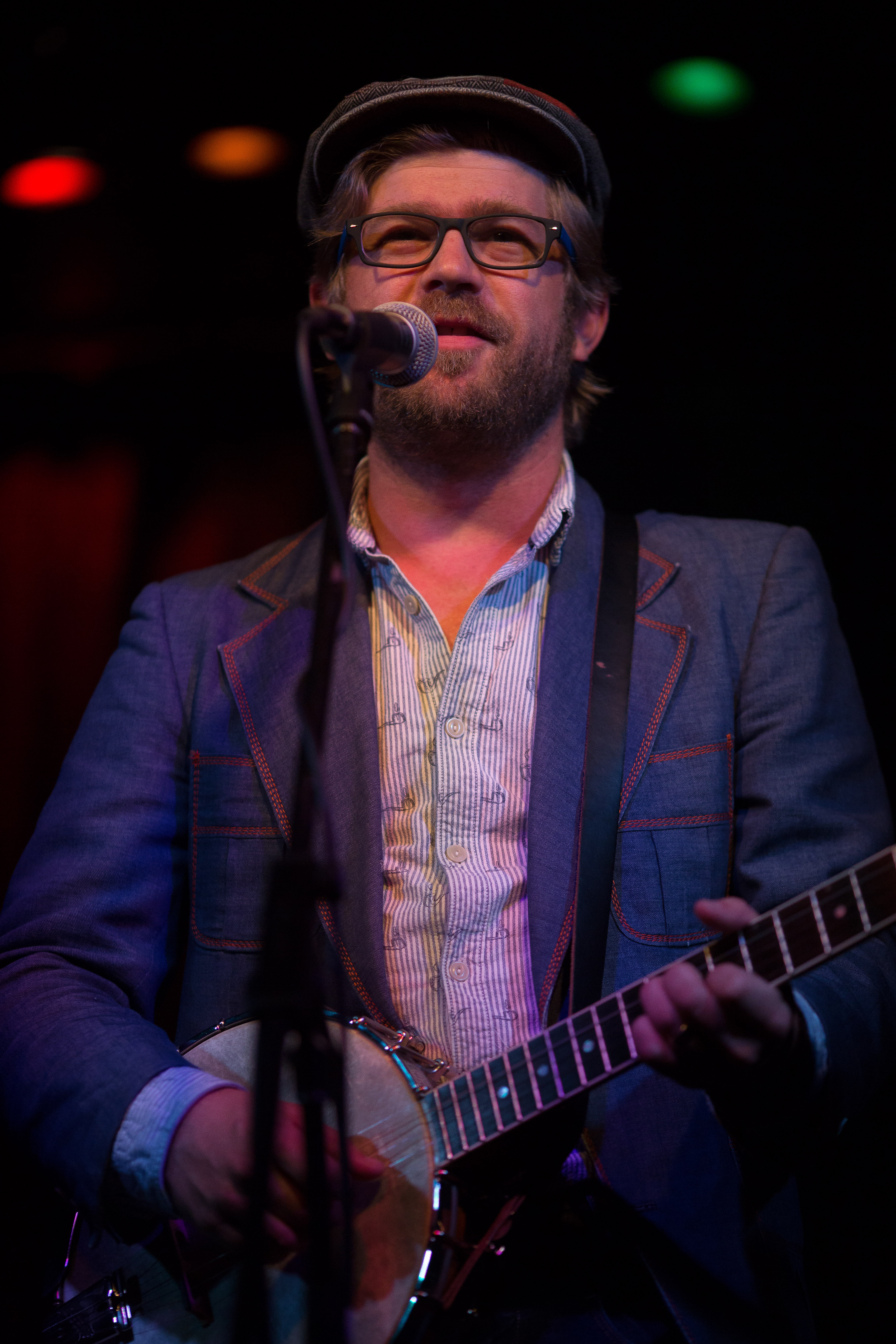 Jordie Lane, with Old Man Luedecke and Zoe Elliot November 18, 2013